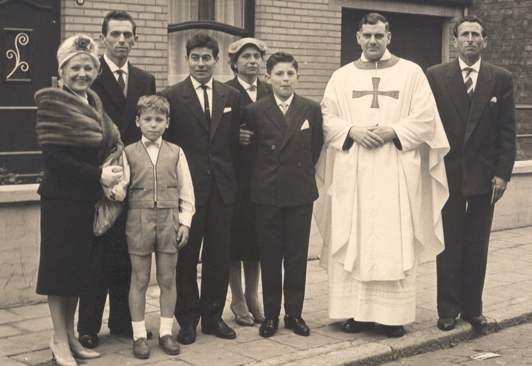 Grâce-Berleur, Jef Ulburghs and a group Italians